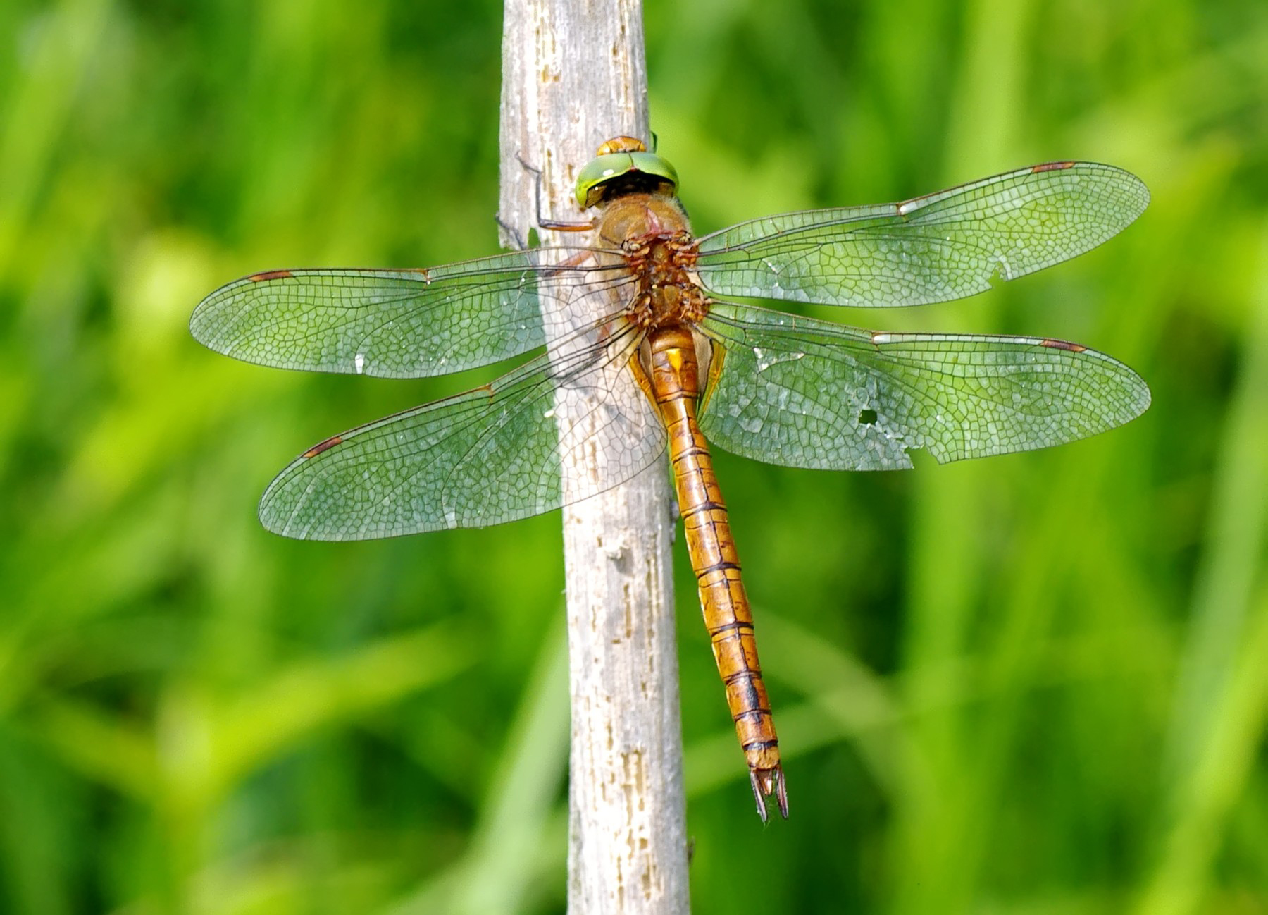 Adult male Green-eyed Hawker (Aeshna isoceles); short resting in the late afternoon.